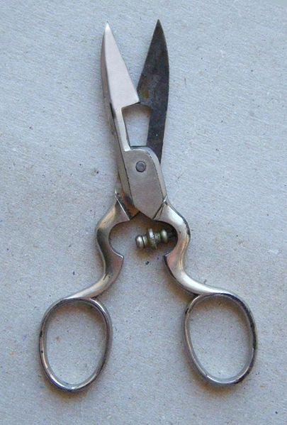 Buttonhole scissors